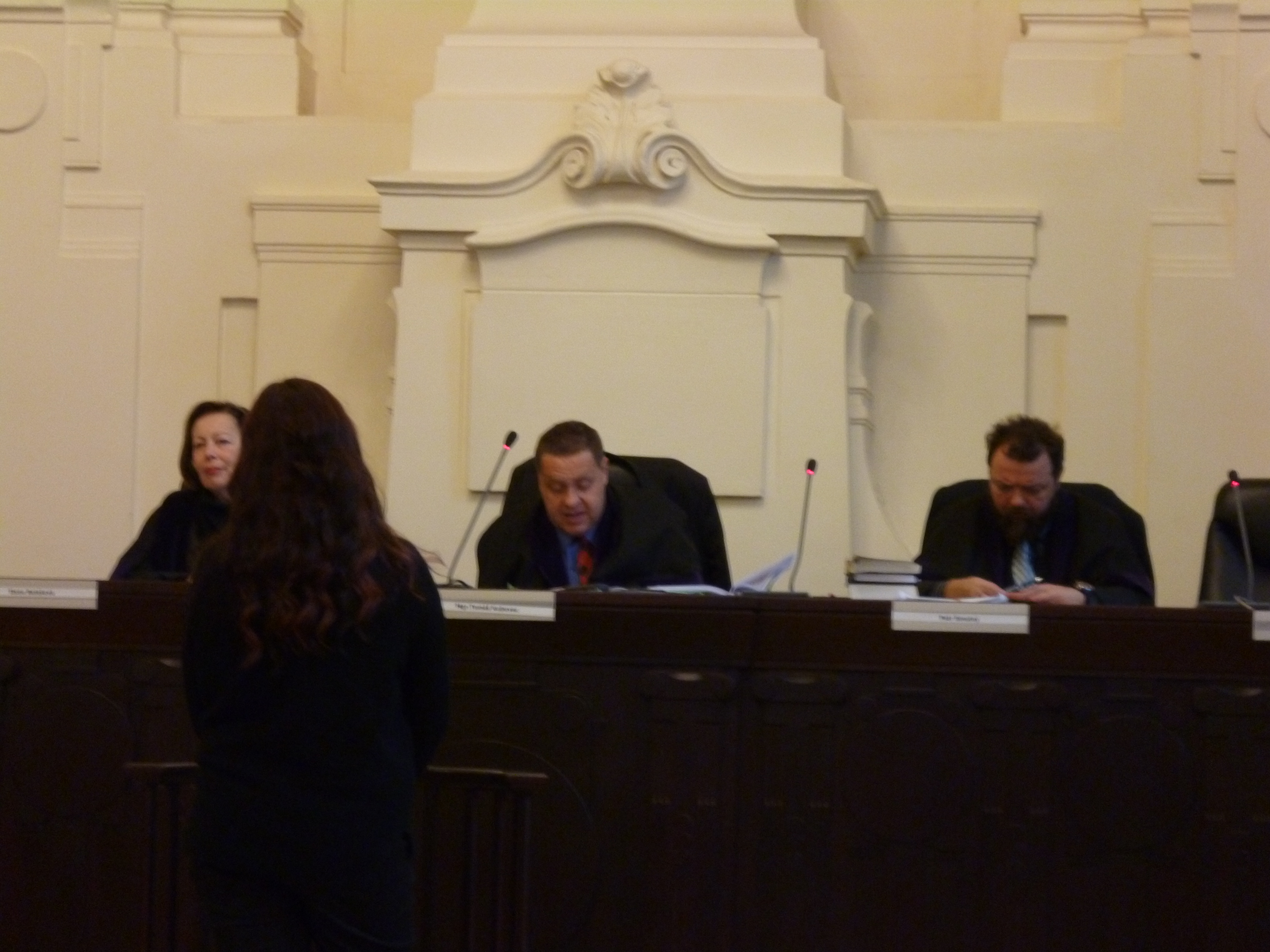 Judge Tomáš Kubovec (centre) during the manslaughter trial of Randy Blythe at the Municipal Court in Prague